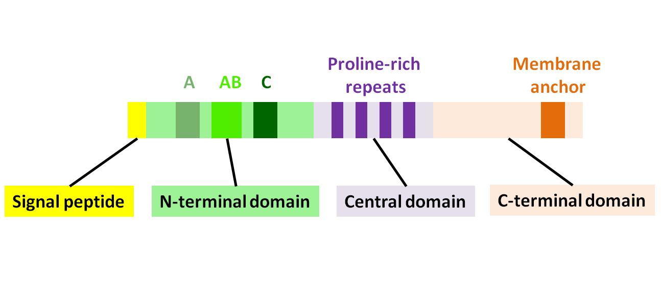 actA